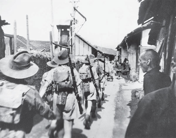 Australian troops of the British Military Mission 204 march to the front in Jiangxi province - Australian War Memorial (AWM)